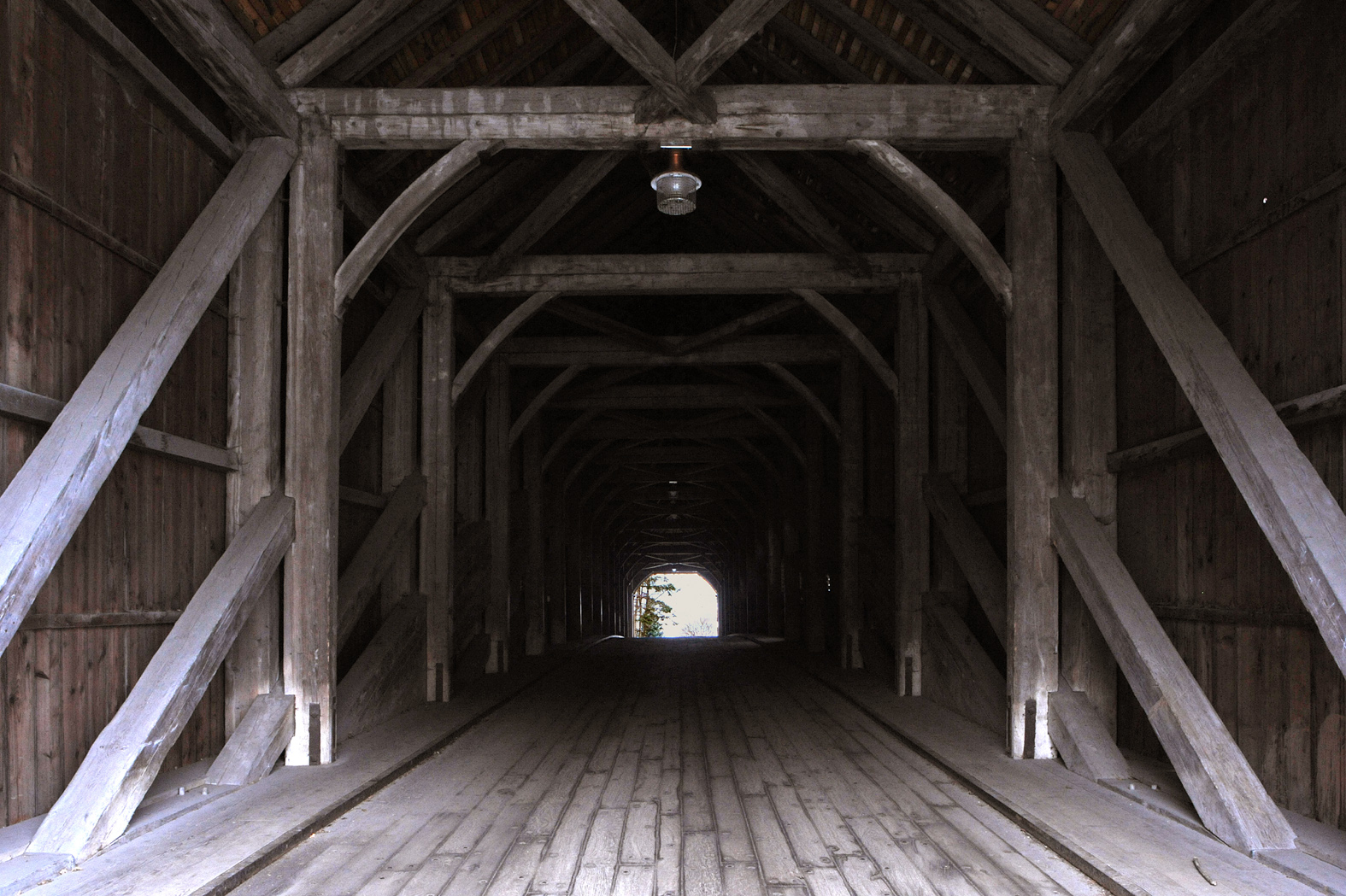 Covered wood bridge of Hasle-Rüegsau, largest wooden arch bridge of Europe; Hasle-Rüegsau, Berne, Switzerland.